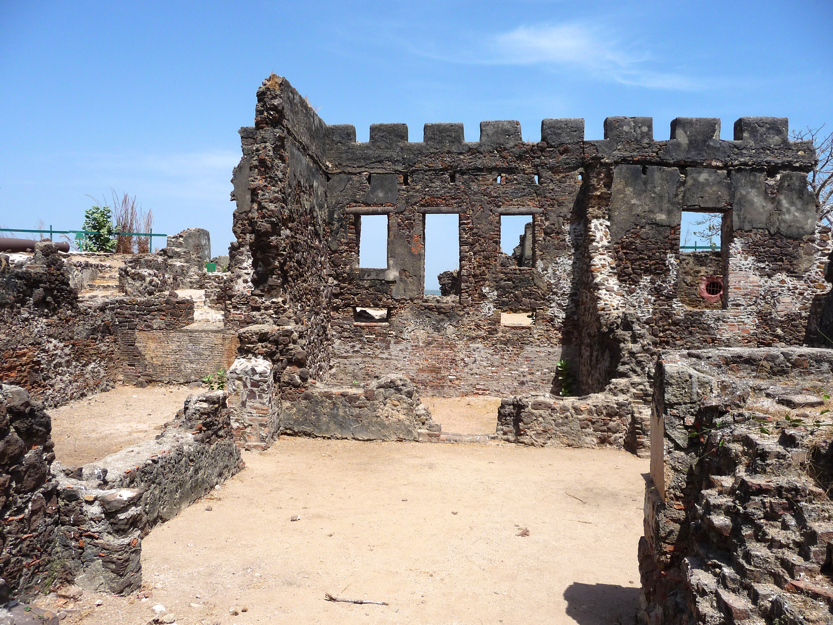 Gambia 2010 - St. James island